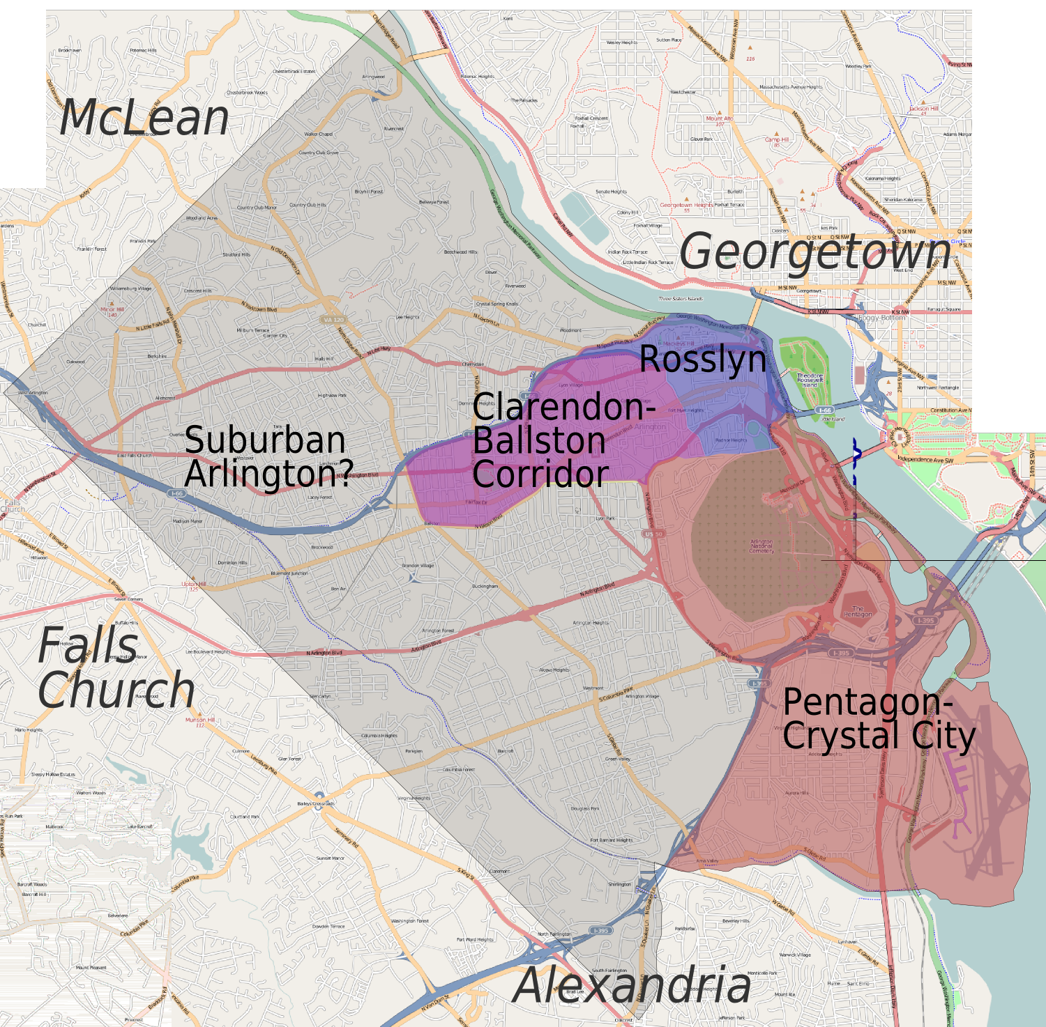 Arlington (Virginia) regions/cities map. Draft version for discussion